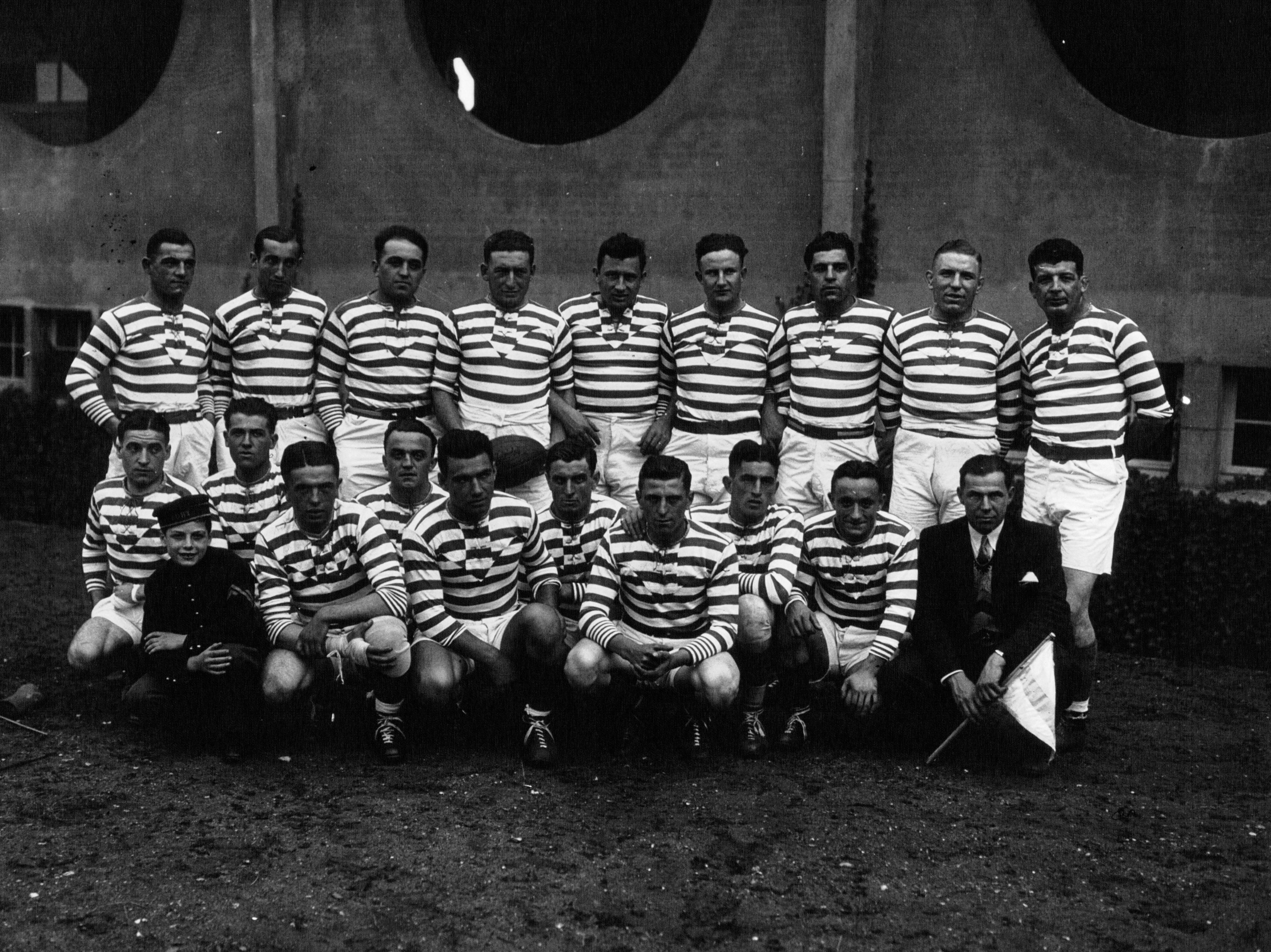 A picture of an Occitan rugby team from Tolosa in 1932